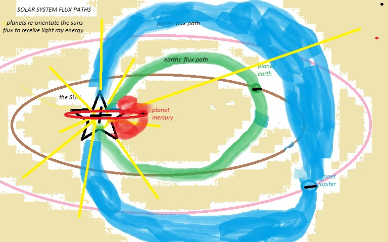 When a light wave photon [magnon] vibration enters into a volume of magnetised space between stars the magnoflux field area re-aligns exactly at right angles to the incoming pulse and transmits the magnetic fluctuation forward by spinning a magnetic dipole which is cut in two as a balanced set of monopoles rotating around the centre swivel point.